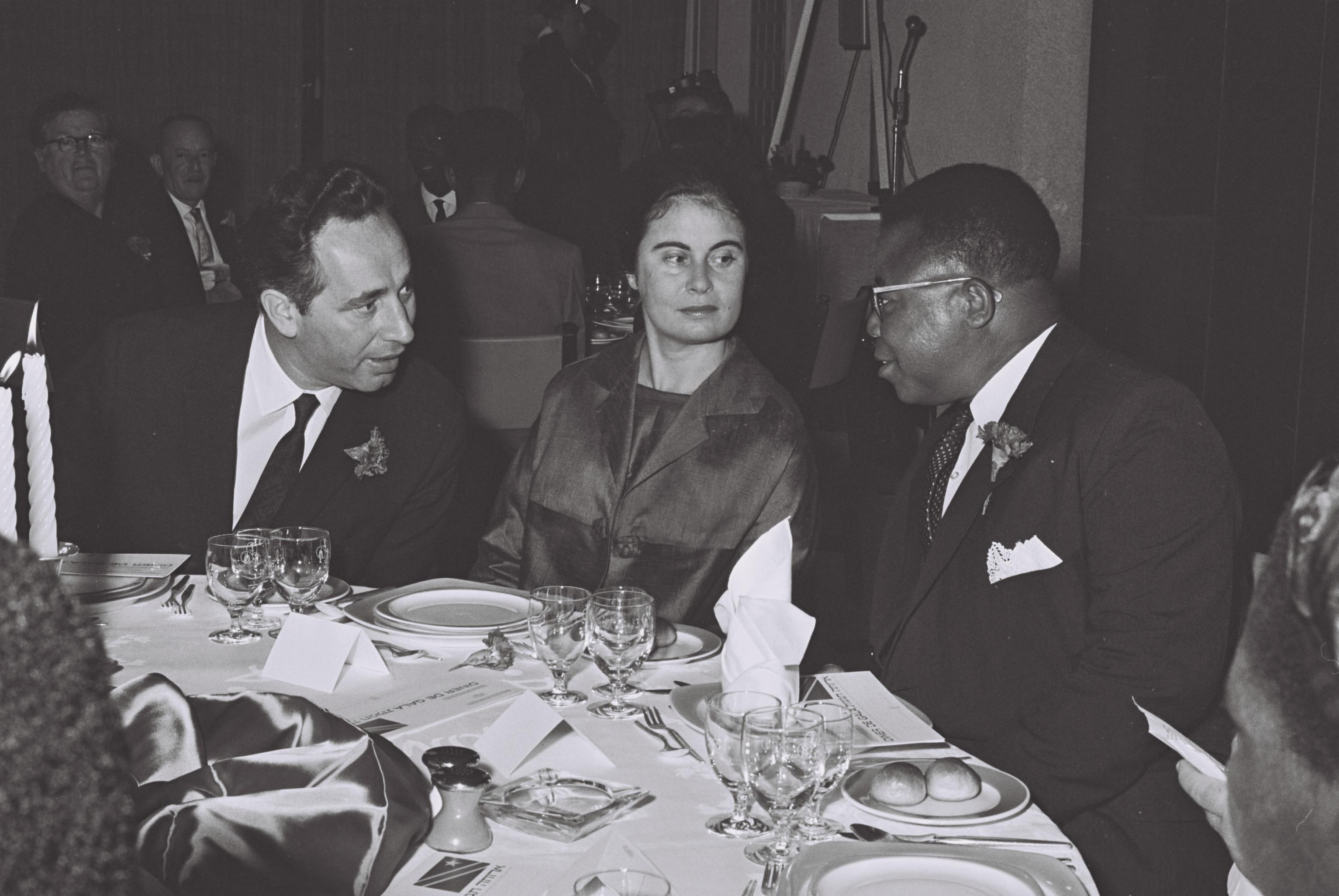 PRES. KASA VUBU IN CONVERSATION WITH DEP. DEFENCE SHIMON PERES (L) AND MRS. ORA NAMIR DURING THE DINNER GIVEN BY TEL AVIV MAYOR IN HIS HONOR AT DAN HOTEL IN TEL AVIV.